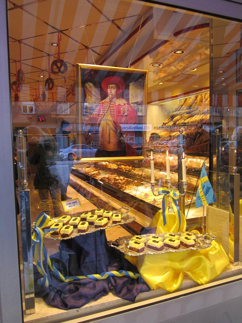 Window dressing on Gustav Adolph DayPlace: Gunnarssons, Götgatan, Stockholm, Sweden